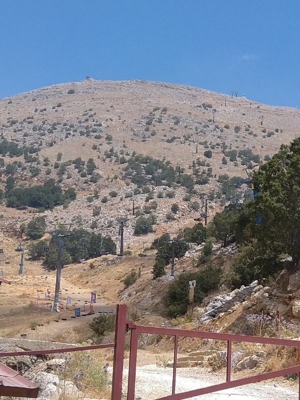 Mount Hermon ski resort in summer (August 3rd).